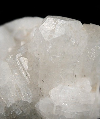 Armenite Locality: Isenwegg, Wasen Alp, Ganter valley, Simplon pass area, Brig, Wallis (Valais), Switzerland (Locality at ) Size: 3.2 x 2.2 x 1.5 cm. Armenite is exceptionally uncommon, especially in large euhedral crystals. This piece has glassy, lustrous, white crystals of armenite to 1.3 cm on matrix of smaller crystals. This is a rare hydrated, barium, calcium, aluminum silicate from the famous Simplon Pass, in Switzerland. This fine specimen was found in a freak and lucky find of the early 1990s.